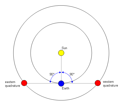 Diagram showing an eastern and western quadrature.